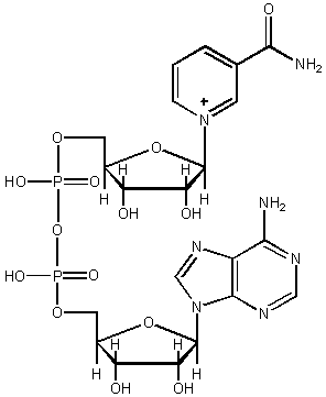 structural drawing of NAD+